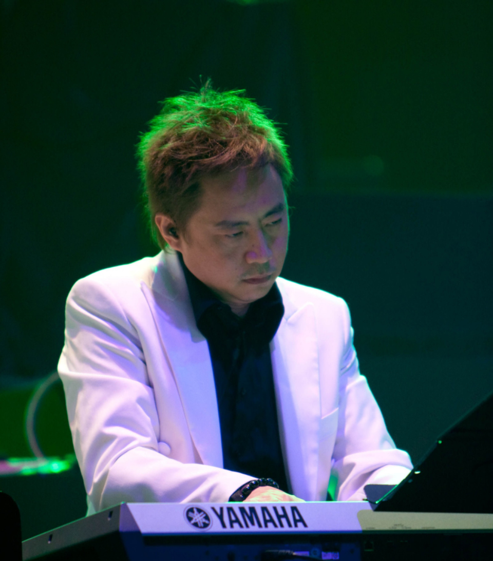 Andrew Tuason performing at Hennessy Artistry in 2009 with Jacky Cheung